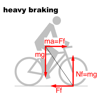 At maximum braking, Nr=0, so the front brake does all the work